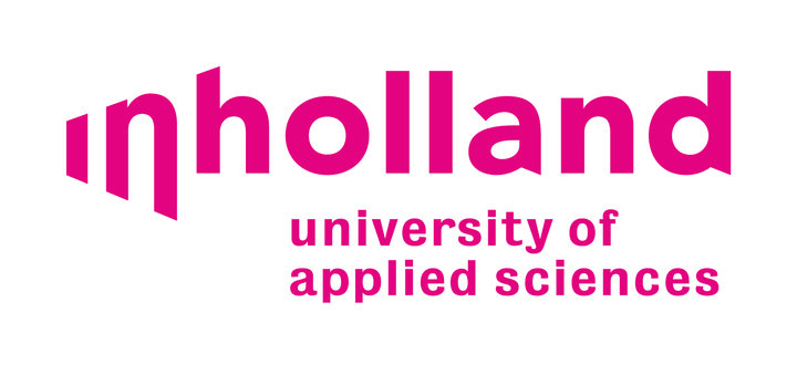 The logo of Inholland University.